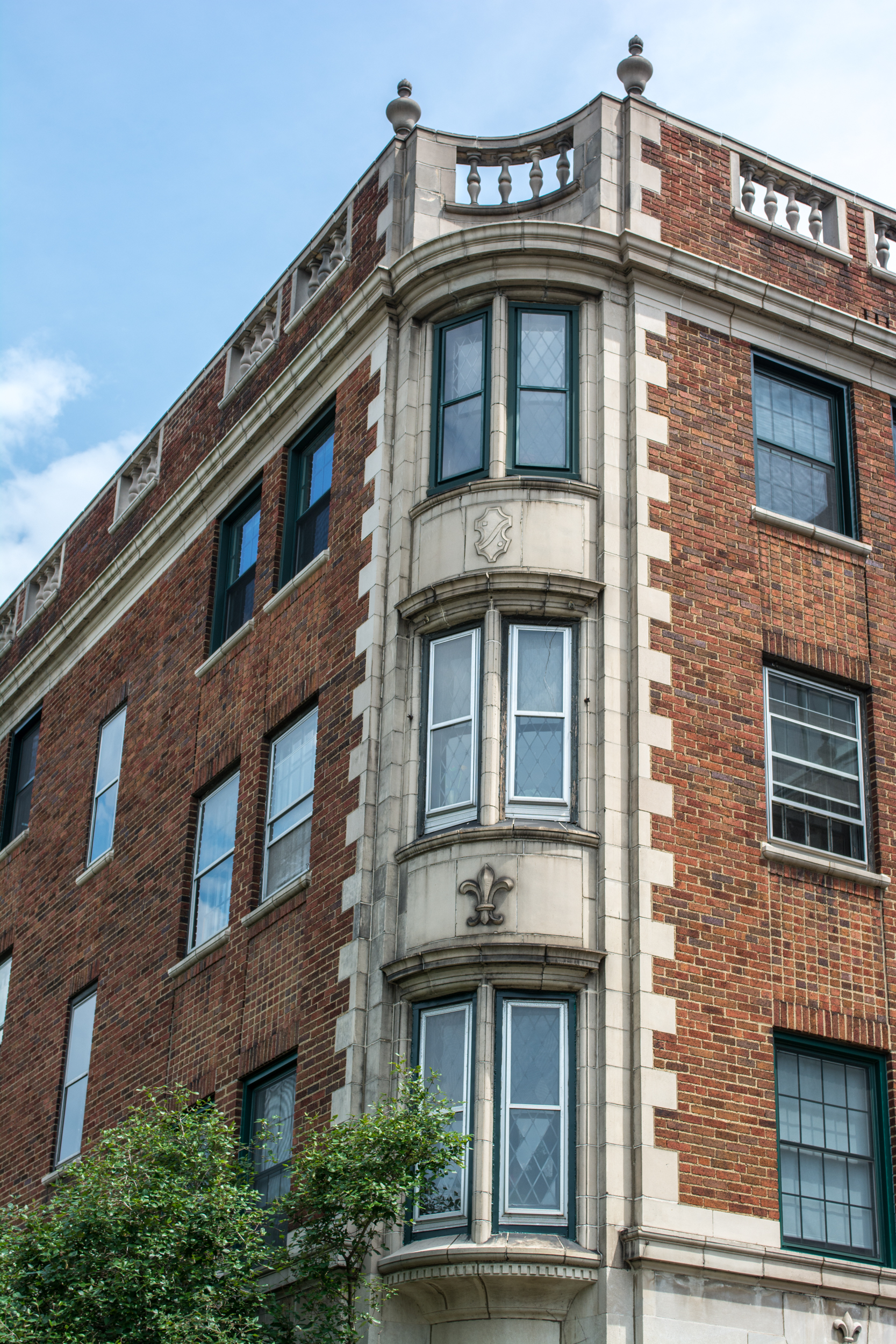 Corner detail of 11432 Cedar Glen Parkway in Cleveland, Ohio, in the United States. This building is part of the interconnected Cedar Glen Apartments. Owned and designed by prominent local architect Samuel E. Weis (a.k.a. Samuel E. White), they were completed in 1927. The complex was added to the National Register of Historic Places on June 17, 1994.